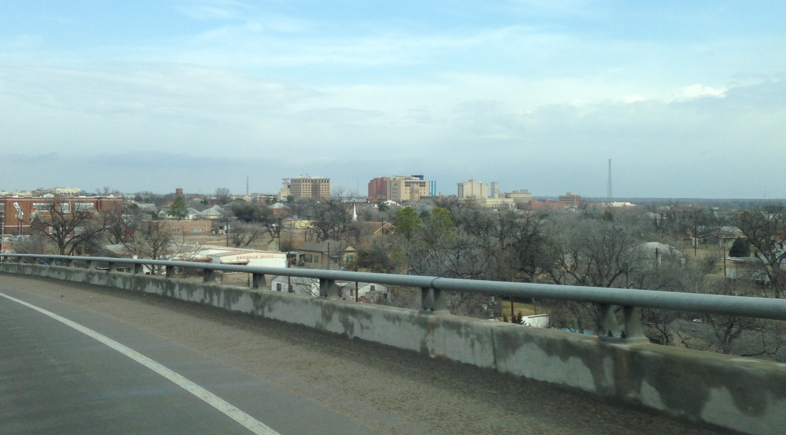 Downtown Wichita Falls, Texas viewed from the US 82 flyover to Interstate 44.